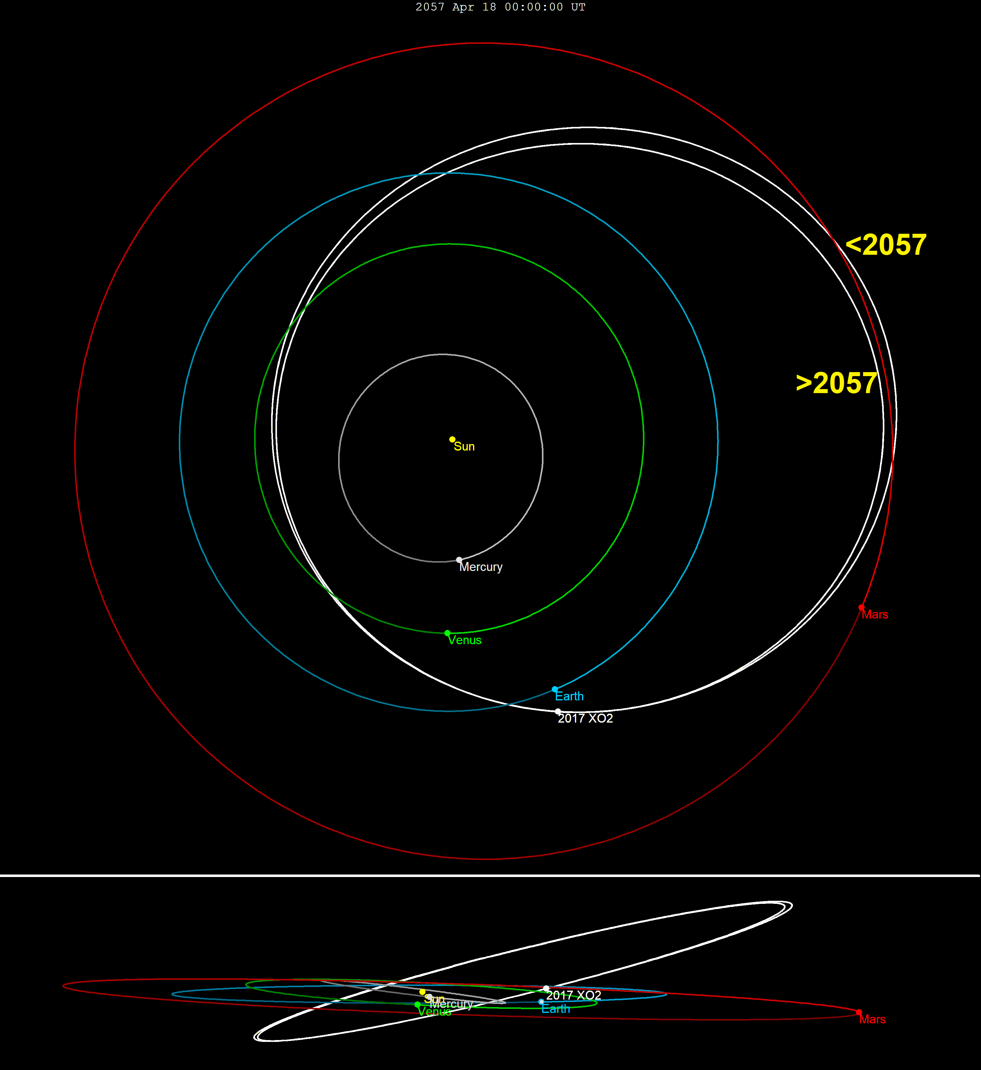 en:2017 XO2 orbit, before and after April 2057 close encounter with earth